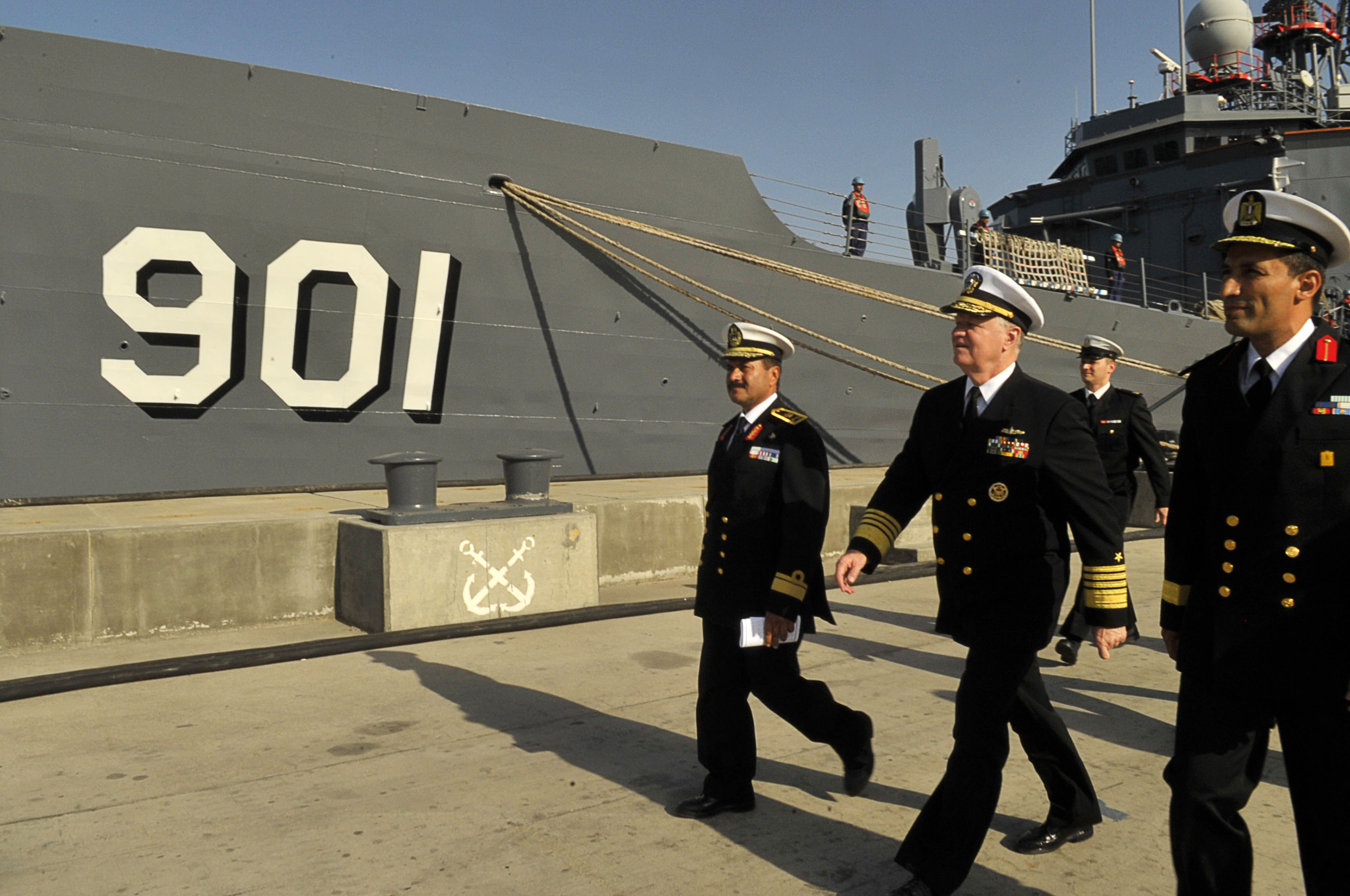 ALEXANDRIA, Egypt (Nov. 11, 2009) Chief of Naval Operations (CNO) Adm. Gary Roughead, middle, receives a tour of the Egyptian naval fleet stationed at Alexandria Naval Base while meeting with his counterpart, Vice Adm. Mohab Mameesh, Commander in Chief of the Egyptian Naval Forces. (U.S. Navy photo by Mass Communication Specialist 1st Class Tiffini Jones Vanderwyst/Released)